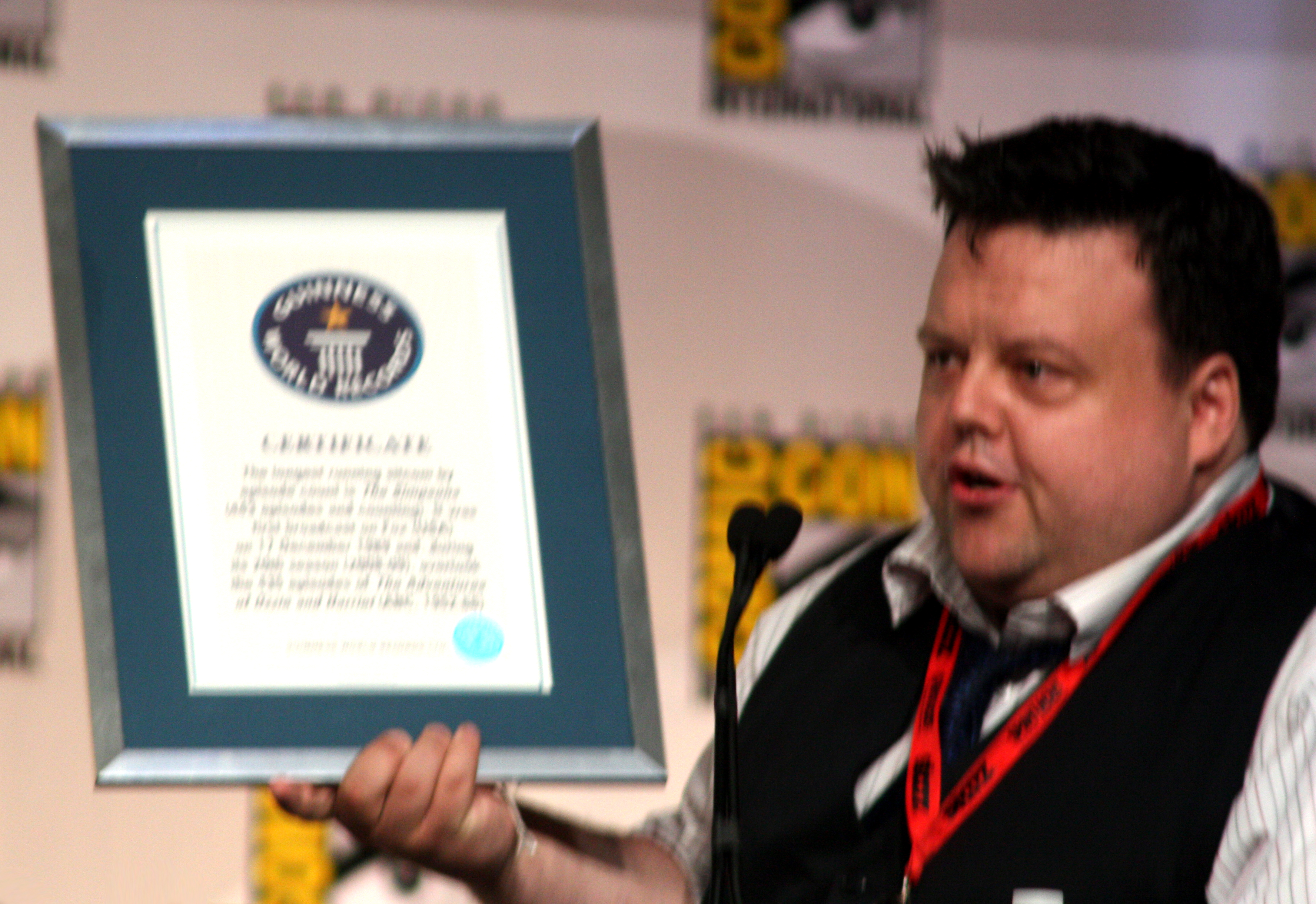 Craig Glenday at the 2009 Comic Con in San Diego, presenting an award to Matt Groening for The Simpsons.